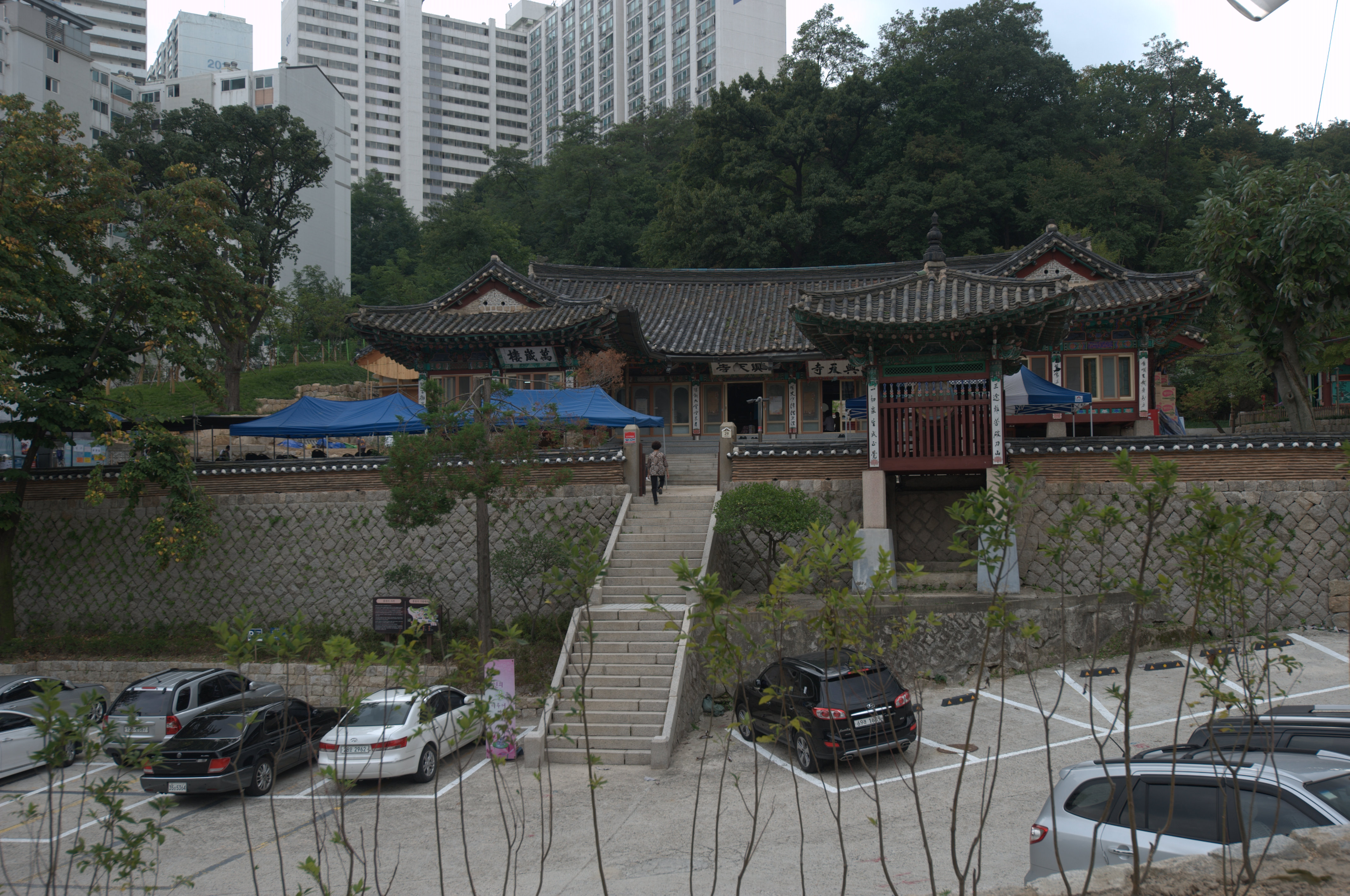 Heungchunsa, a Buddhist temple located in Donam-dong, Sungbuk-gu, Seoul, South Korea.